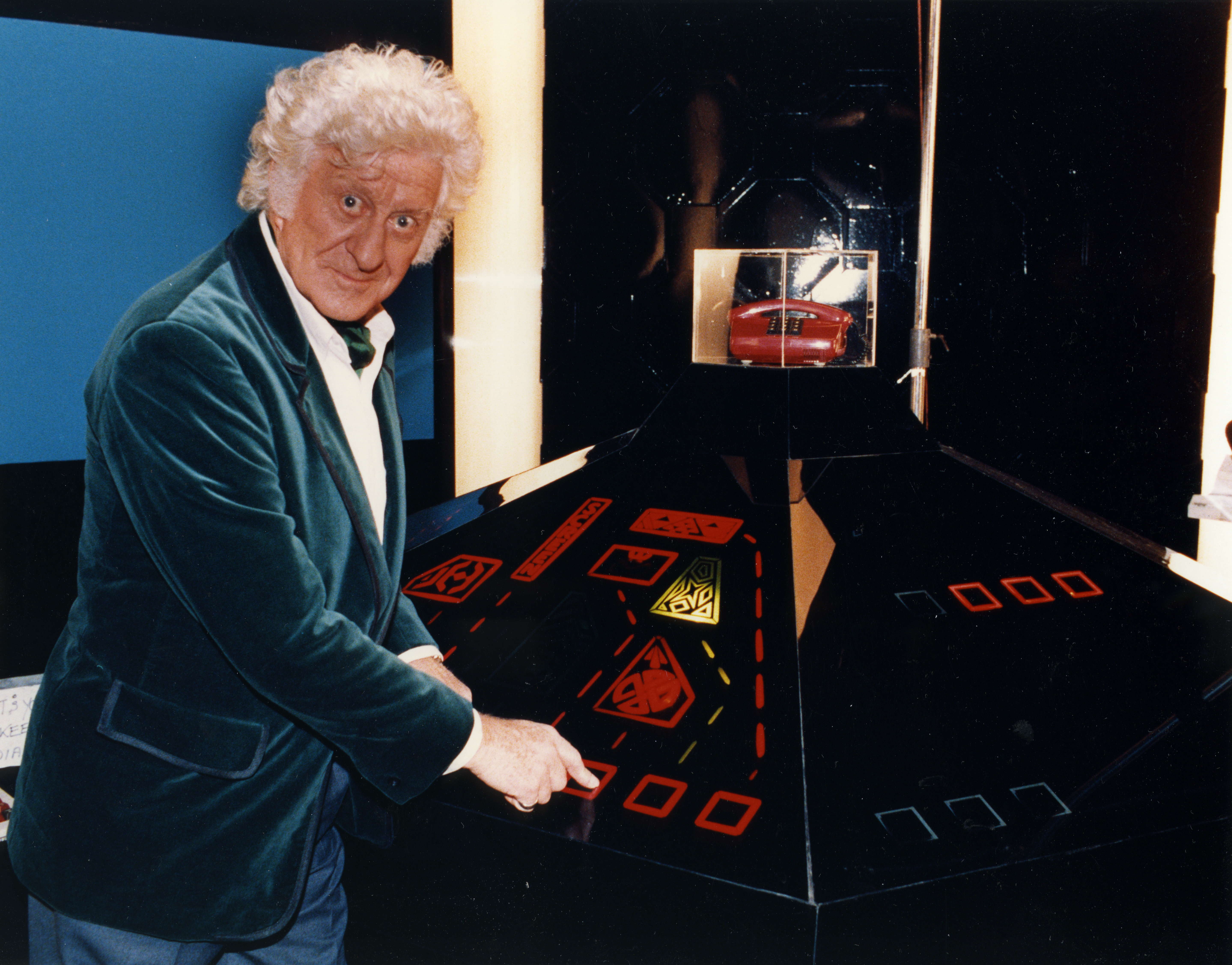 BBC sci-fi series 'Doctor Who' was first broadcast on BBC One at 5.15pm on Saturday November 23, 1963. It was created as an educational family show to fit between the football results and evening entertainment programmes. Doctor Who was the brainchild of Canadian TV producer and BBC Head of Drama, Sydney Newman. The fiftieth anniversary special episode of the long-running series is 'The Day of the Doctor', which will be screened simultaneously in 76 countries on 23 November 2013 and will be the world's biggest drama simulcast. This image is of actor Jon Pertwee, who played the Third Doctor for five seasons from 3 January 1970 to 8 June 1974. Pertwee played the character as an active, suave and technologically oriented crusader. The Third Doctor came into existence as part of a punishment from his own race, the Time Lords, who forced him to regenerate and disabled his TARDIS. As a result he spent much time stranded on Earth, where he worked as a scientific advisor to British military organisation, UNIT. Eventually this restriction was lifted and he embarked on more traditional time travel and space exploration stories. In 1983 Pertwee appeared again as the Third Doctor in the 20th anniversary special episode 'The Five Doctors', and then finally in a charity special episode 'Dimensions in Time' in 1993. This image of Pertwee as Dr Who is from the New Zealand Post Archives series, which was part of the Post Office Museum and Archives. There is a large amount of photographic and audio visual material in this series, which were intended for publicity, internal training, and to show NZ Post history. This photograph is likely to have been commissioned for publicity purposes in conjunction with Telecom. More information on this series can be found on Archway at Archives Reference: AAME 8106 W5603 10/2/85 For updates on our On This Day series and news from Archives New Zealand, follow us on Twitter Material from Archives New Zealand